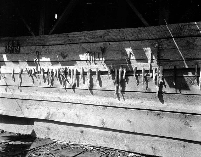 From John Cobb field notebook: Fish drying, Shakan. Jul 16, 1911 Subjects (LCTGM): Fish drying--Alaska--Shakan Subjects (LCSH): Tlingit Indians--Subsistance activities--Alaska